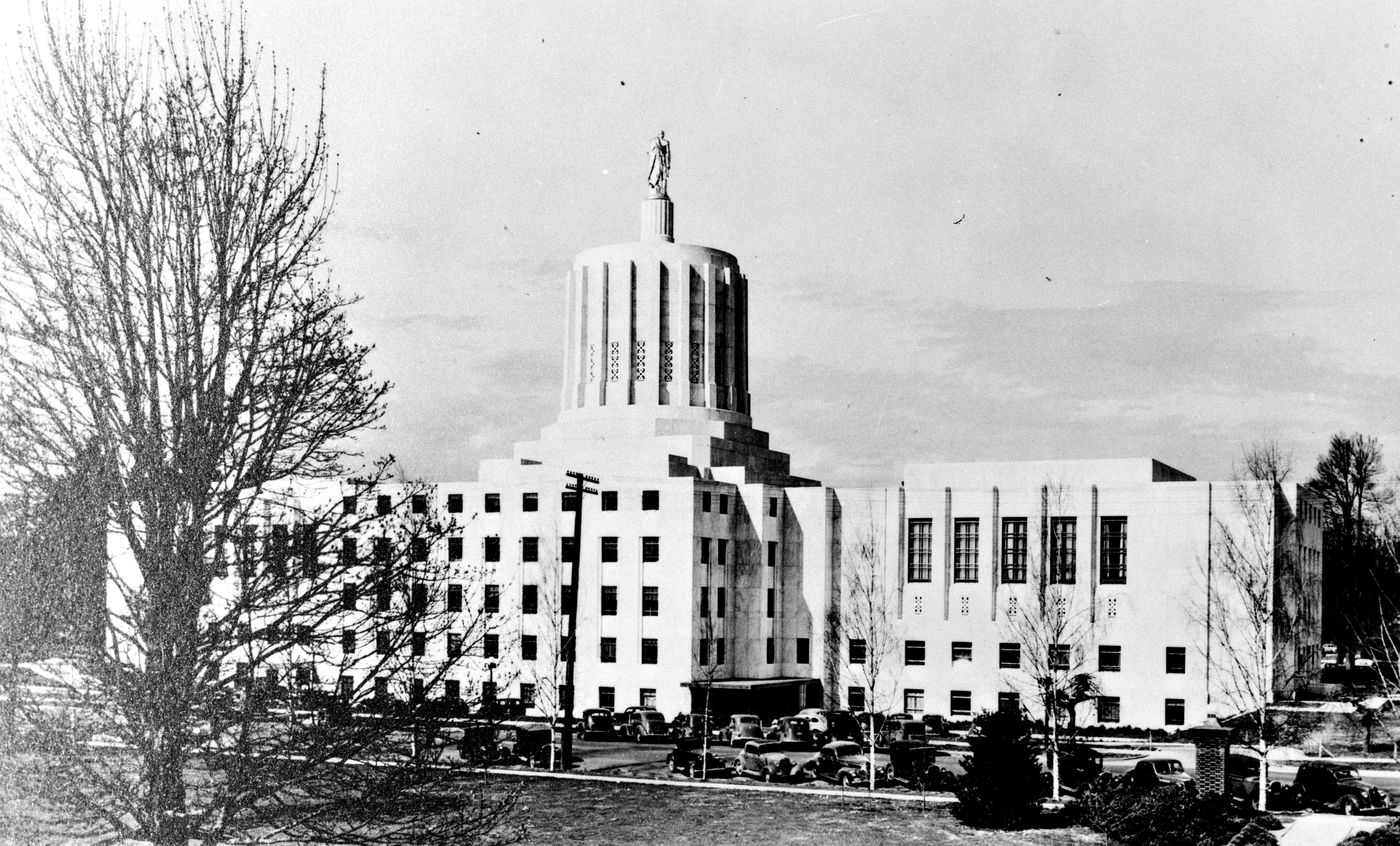 Back of the Oregon State Capitol in 1939. Info page.